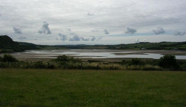 Traeth Dulas A surprisingly large estuary for a relatively small river. This is the estuary of the Afon Goch. Taken from SH487887 looking SW